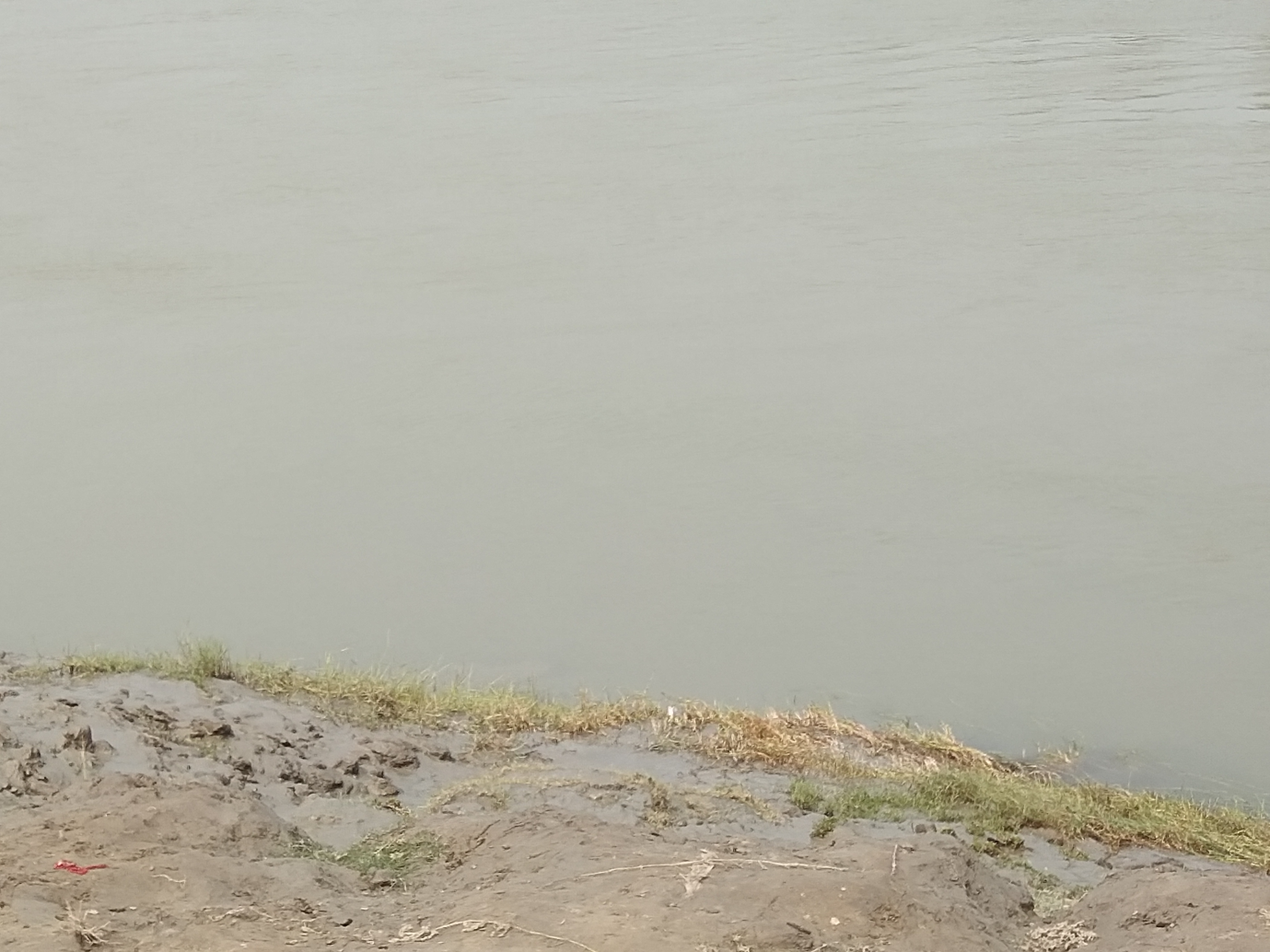 ভদ্রতা নদী ডুমুরিয়া